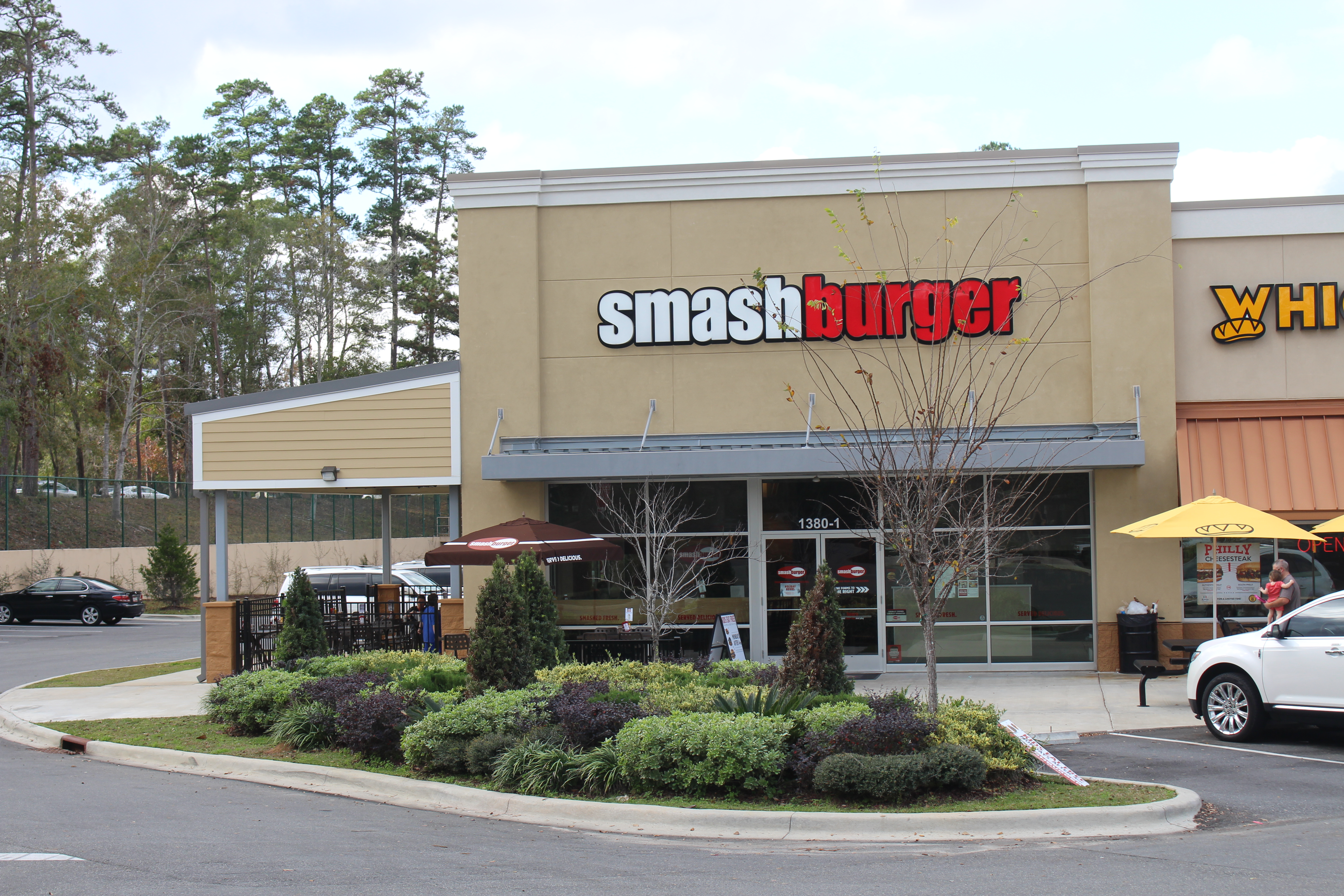 Smash Burger, Village Commons, Tallahassee, Leon County, Florida